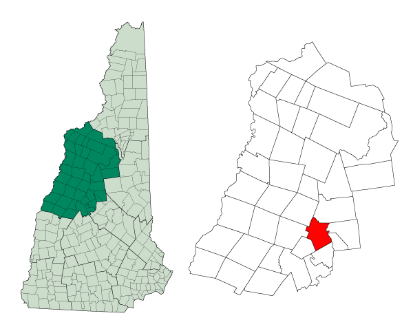 Map of a municipality in Belknap County, New Hampshire